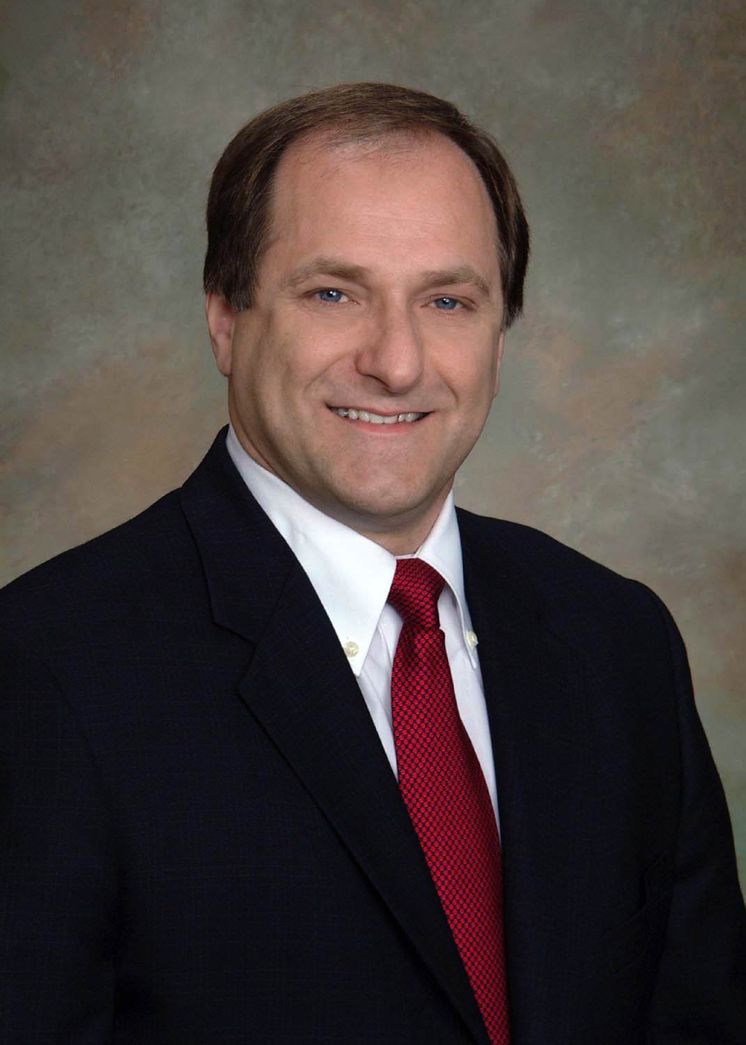 Mike Capuano, member of the United States House of Representatives.